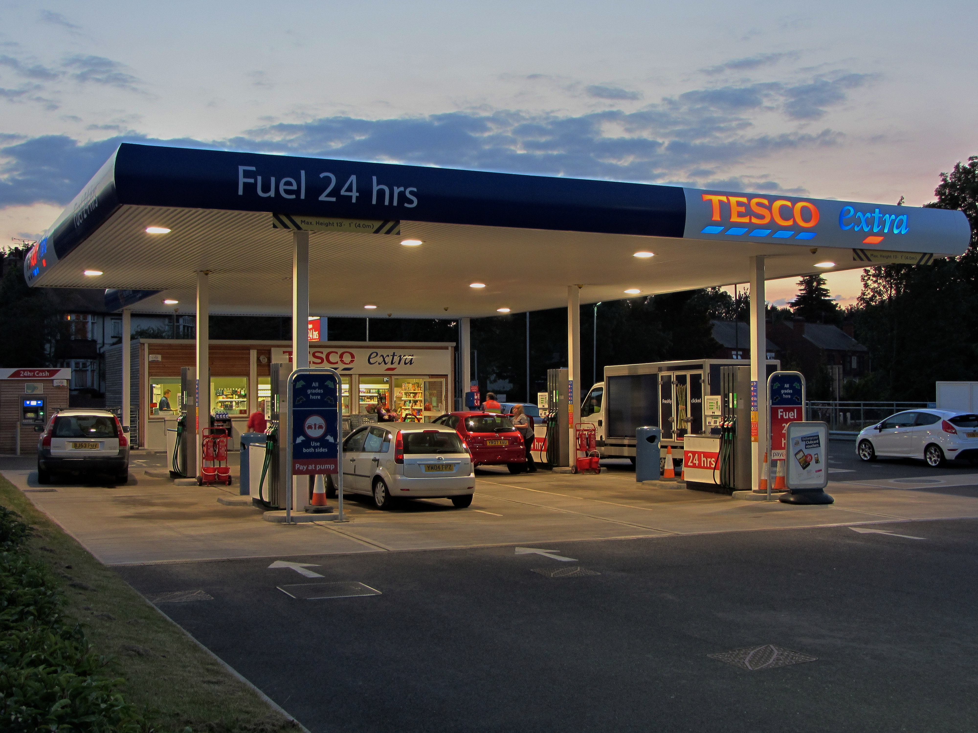 " Welcome to the 24 hour world of Tesco" 1